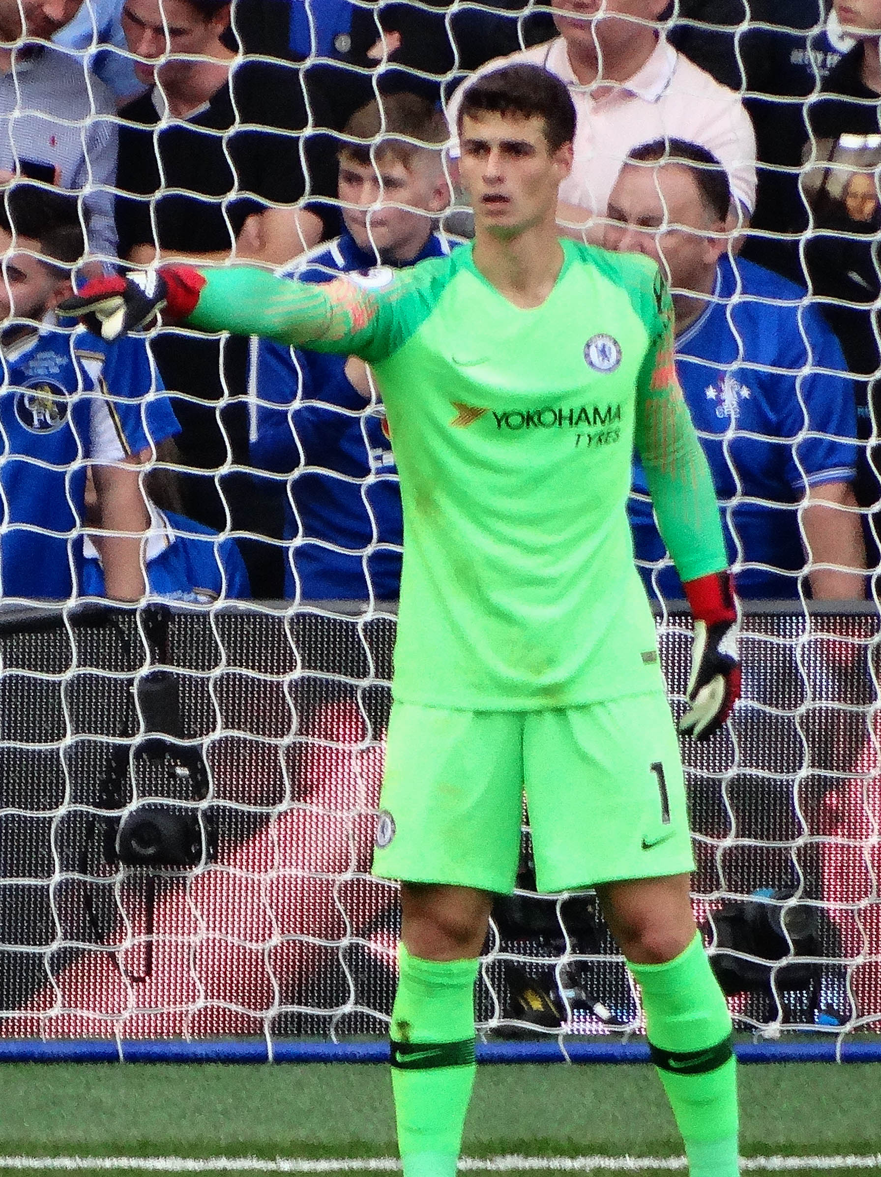 Chelsea v Arsenal